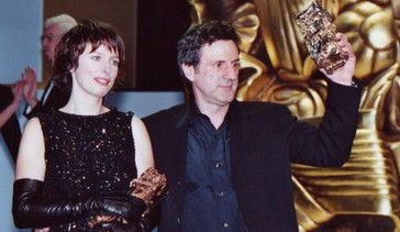 Karin Viard and Daniel Auteuil, French actors